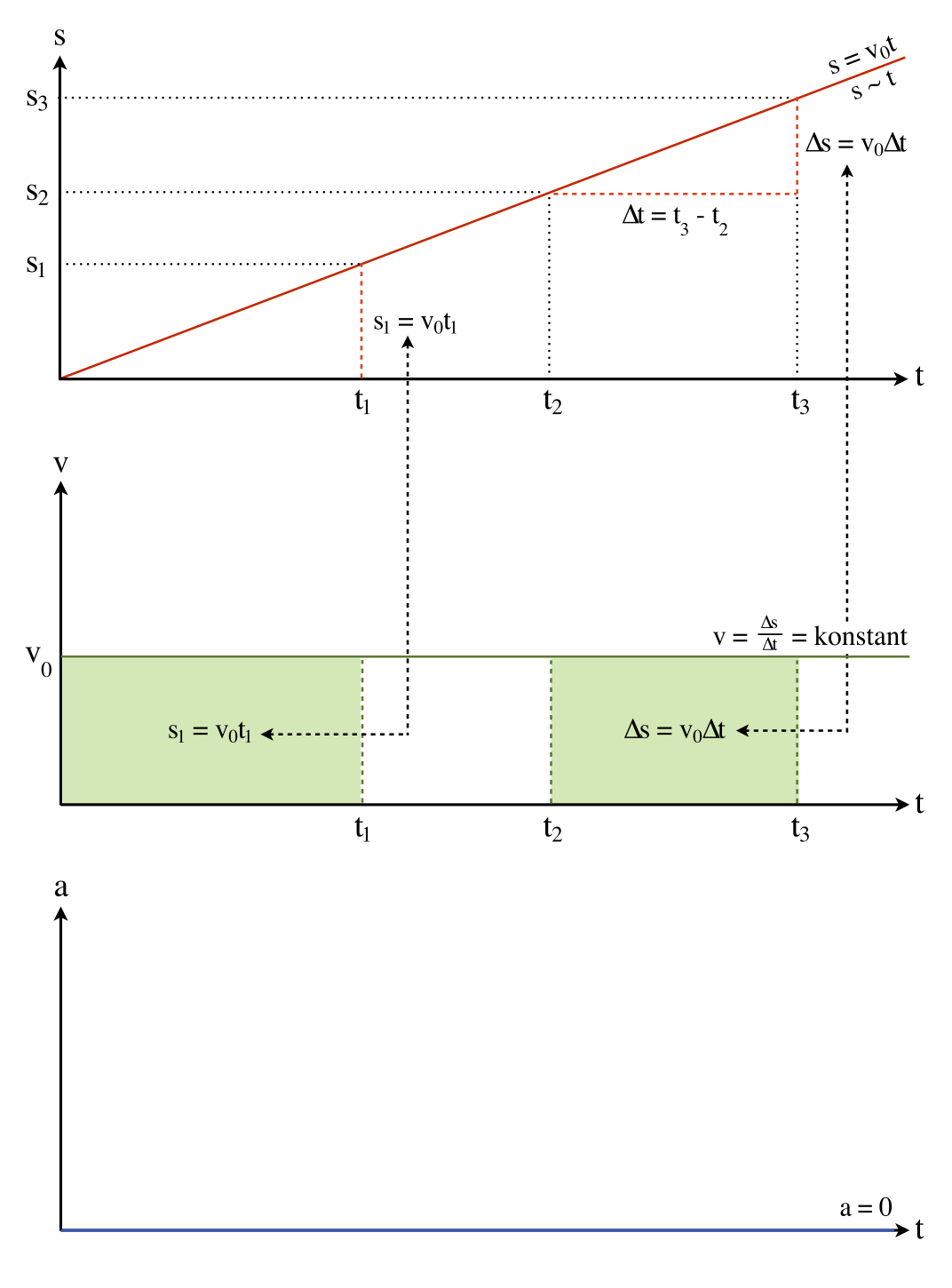 kinematic-diagramms of constant velocity